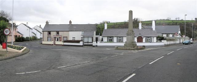 Glynn, County Antrim Looking towards the war memorial in the centre of the village.